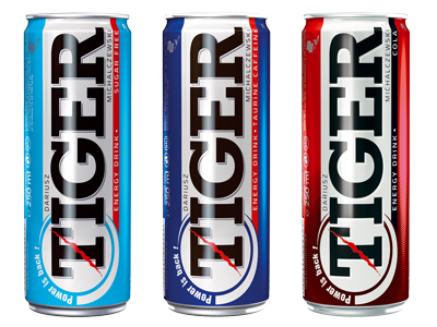 Tiger Energy Drink - product range